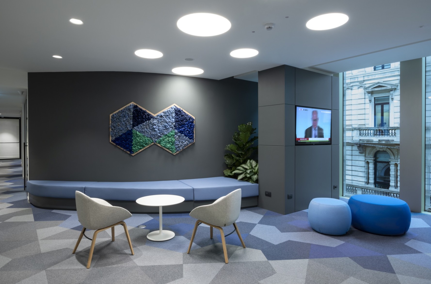 Oliver Wyman Milan Office, 2020